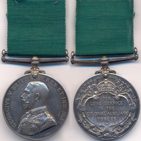 Awarded to Lieut John B Grierson, 52nd Infantry, Australian Military Forces